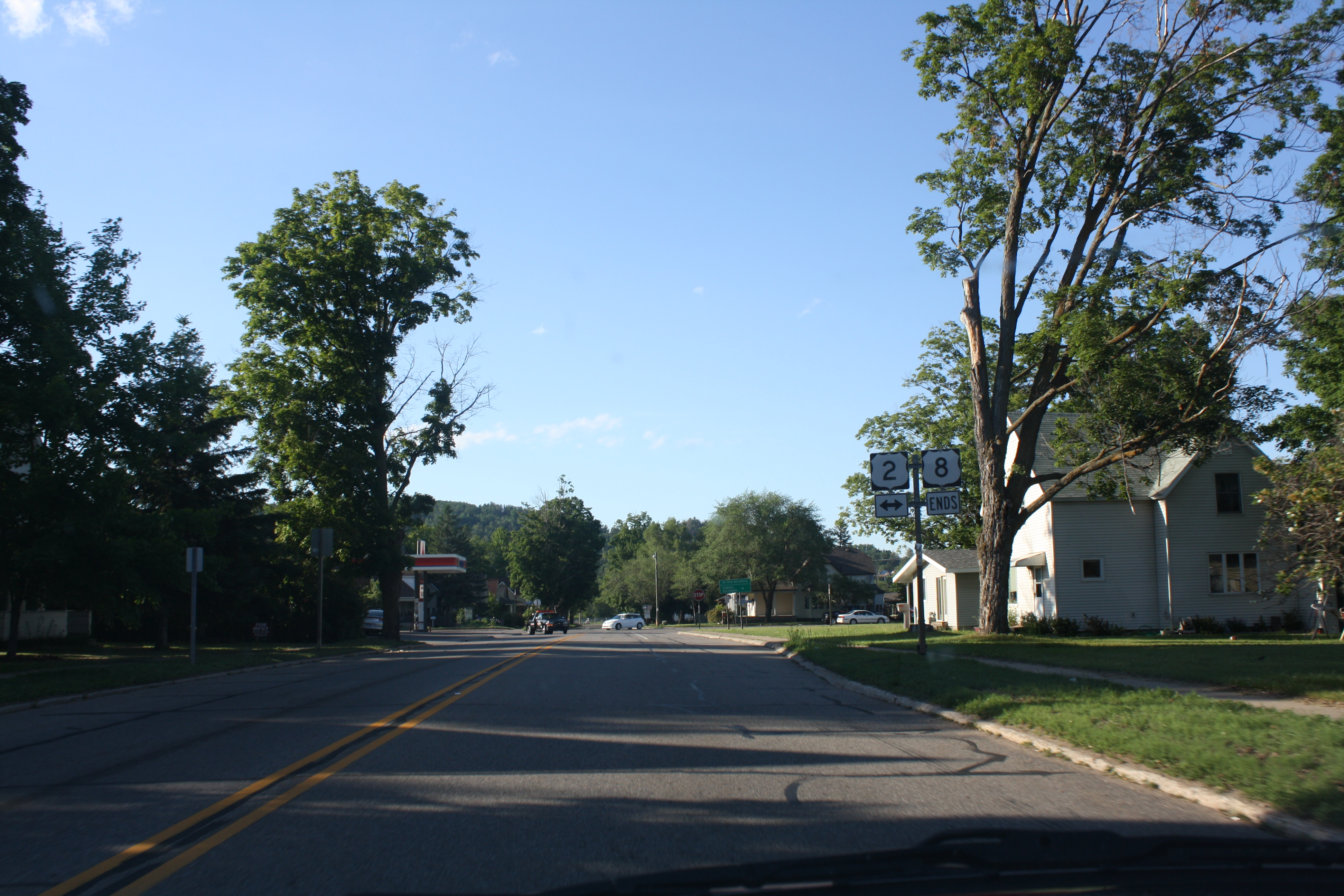 Looking north at the eastern terminus for U.S. Route 8 in Norway, Michigan at U.S. Route 2.